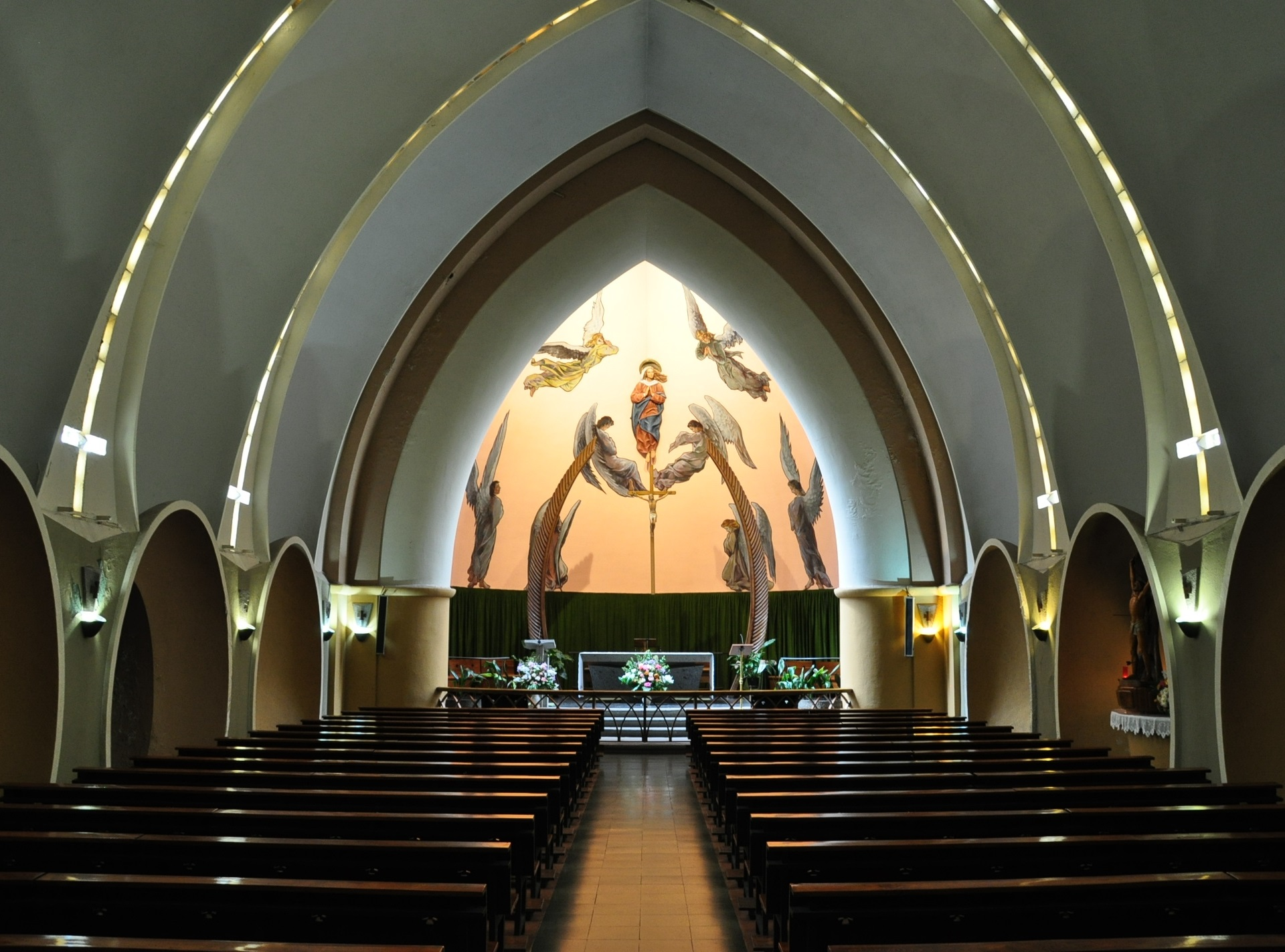 Parish church of Santa Maria (interior) in El Pont de Suert, a small town in the Alta Ribagorça district, Catalonia, Spain.